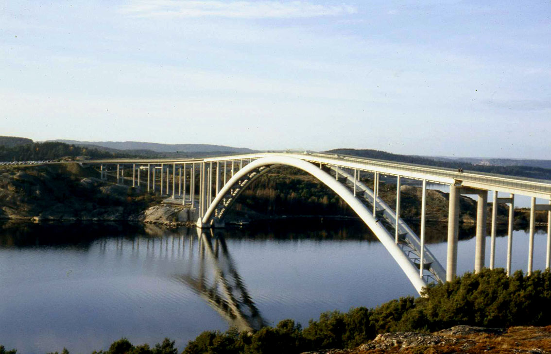 Almöbron (destroyed in 1980), remplaced by the Tjörnbron Stenungsund, Sweden